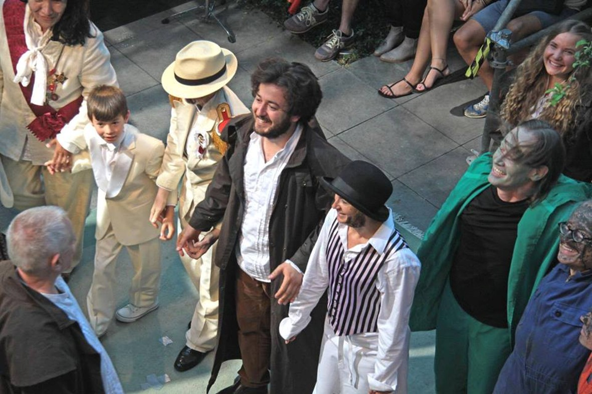 Curtain call following a performance of Shakespeare's The Tempest in Mannheim, Germany. The director Hansgünther Heyme is in the lower left-hand corner facing the cast